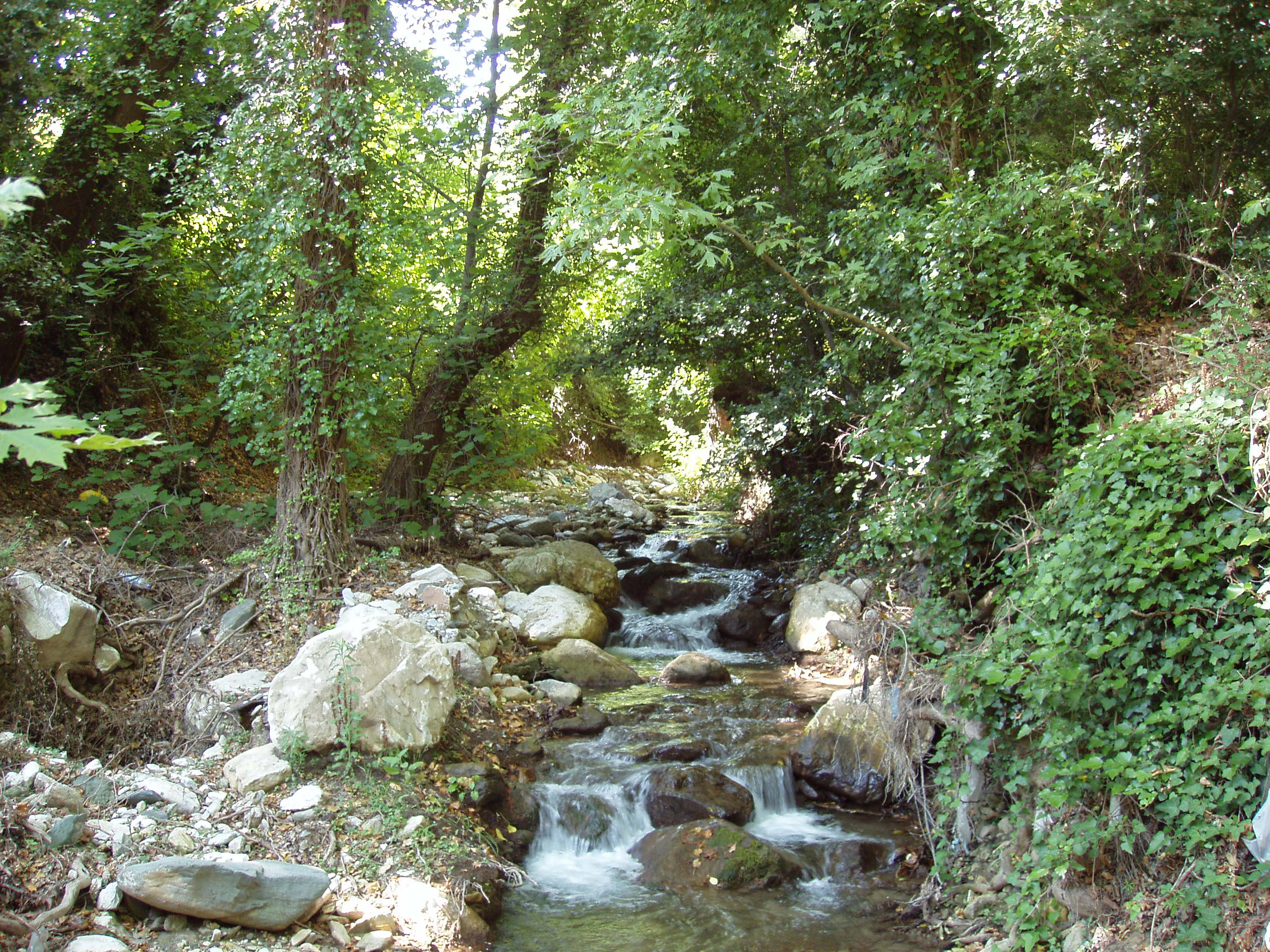 Valiontates, island of Samos, Greece